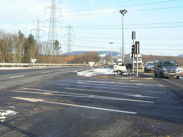 Improved road junction Former just a junction for the minor road to Kegworth, it now provides access to the new East Midlands Parkway Station, and also makes provision for the proposed dualling of the A 453.